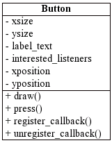 UML Class example. . Created by Esa Pulkkinen with Umbrello and Gimp